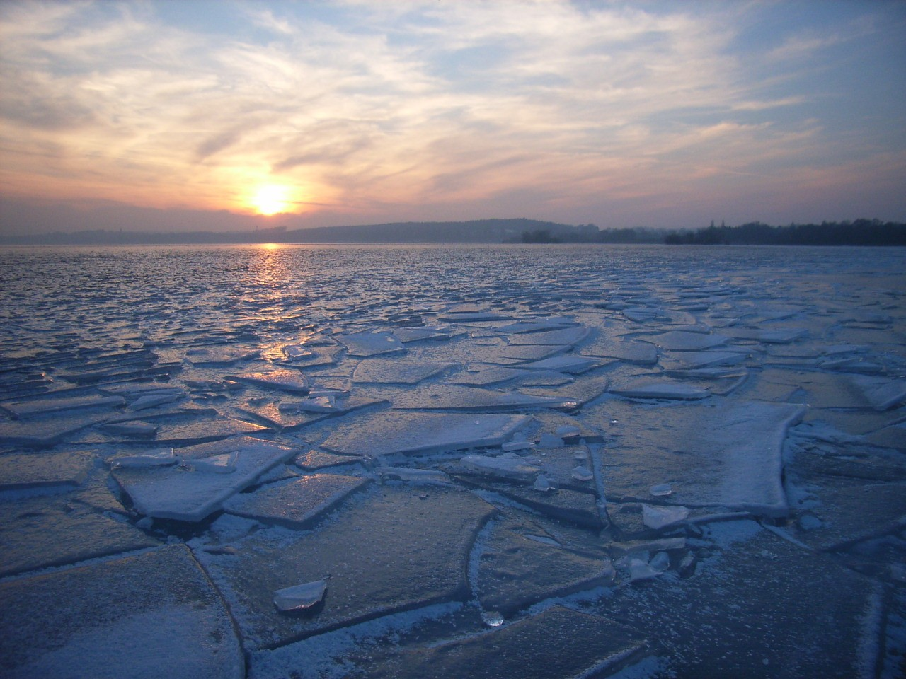 Lake Ammersee in winter